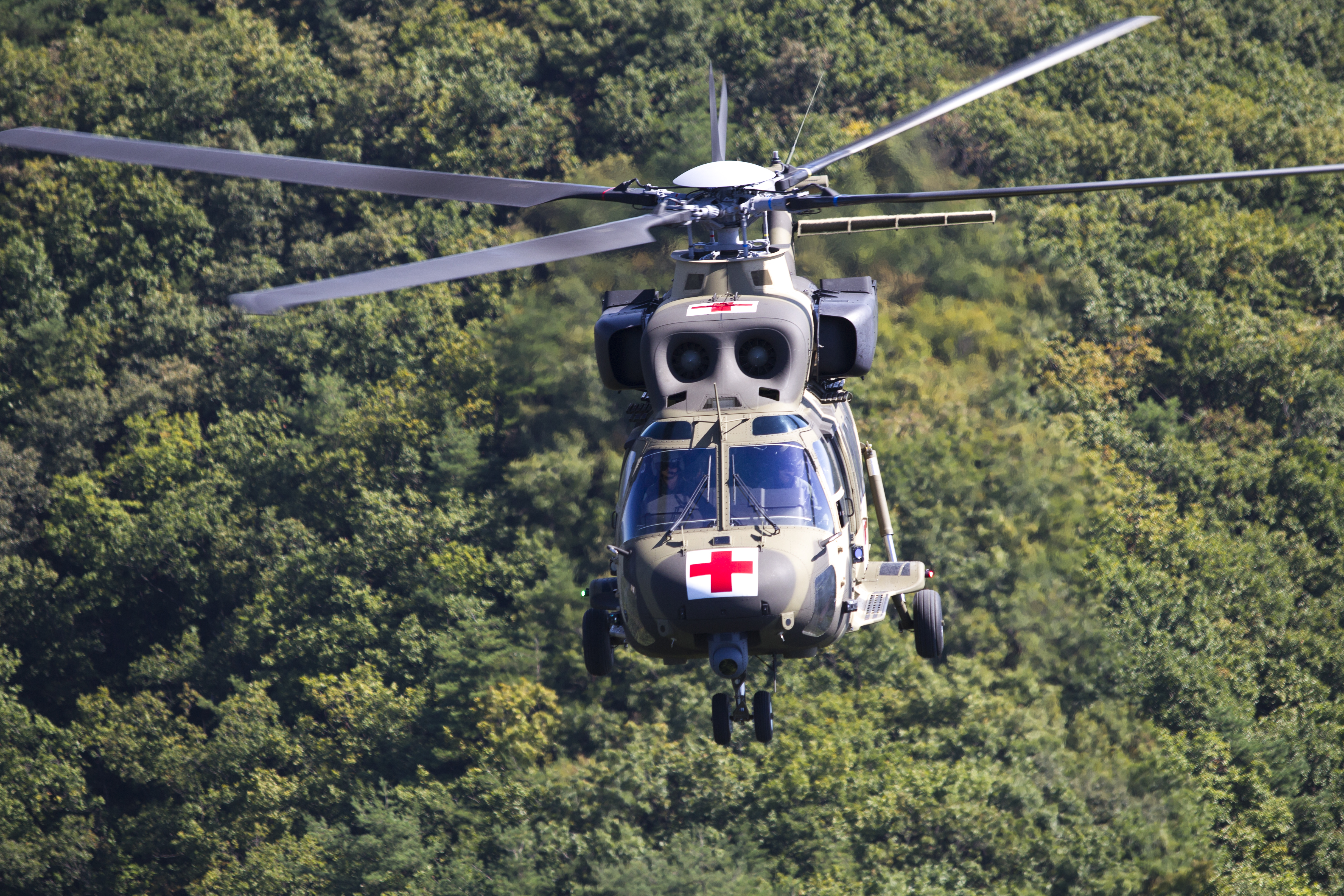 KAI KUH-1 Surion MEDEVAC